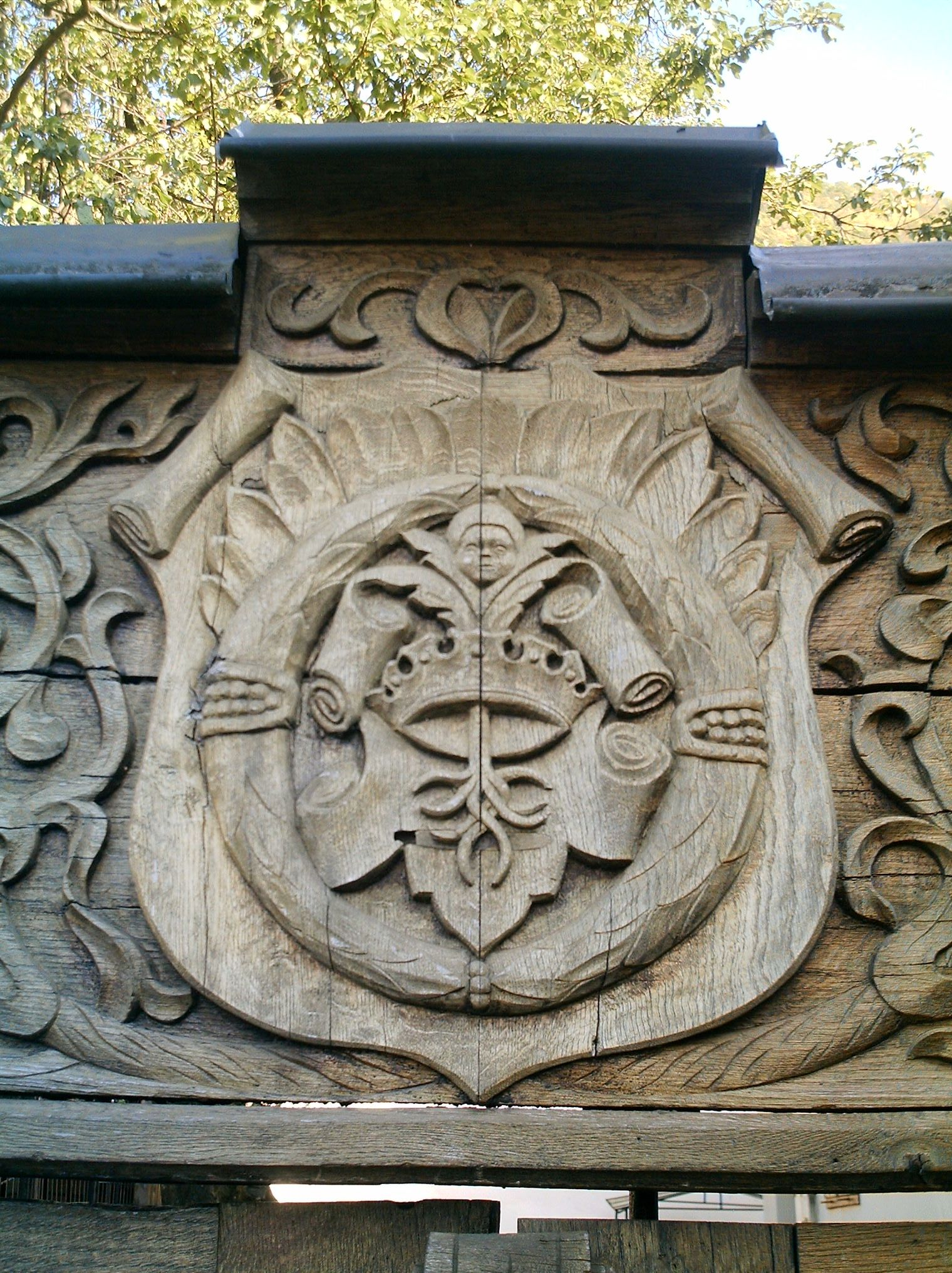 Ţesătorilor Bastion from Brasov detail of the wooden gate: the coat of arms of Brasov